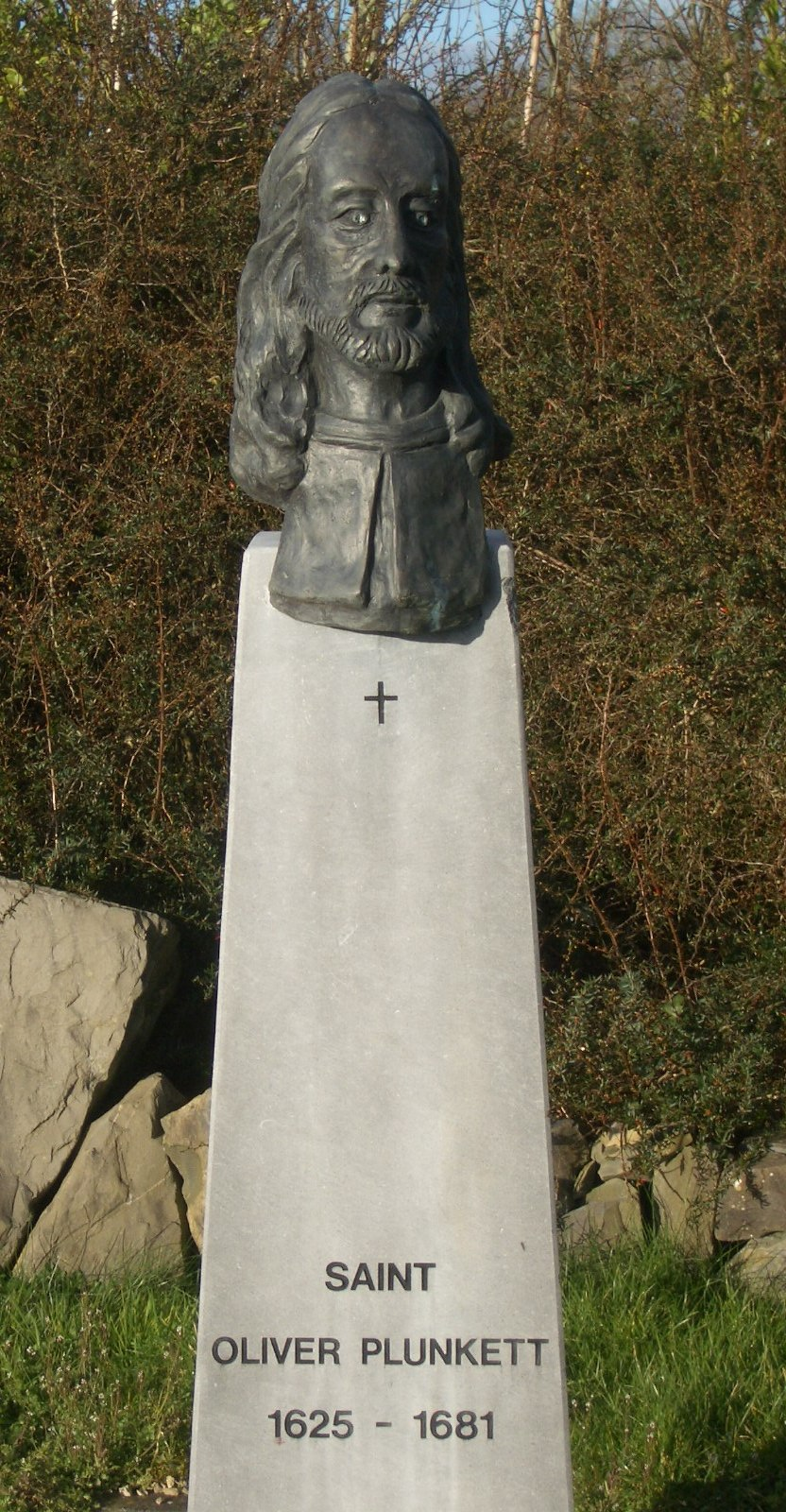 Bust of Oliver Plunkett in the Kilcloon Millennium Garden by sculptor Betty Newman Maguire unveiled 25 June 2000.